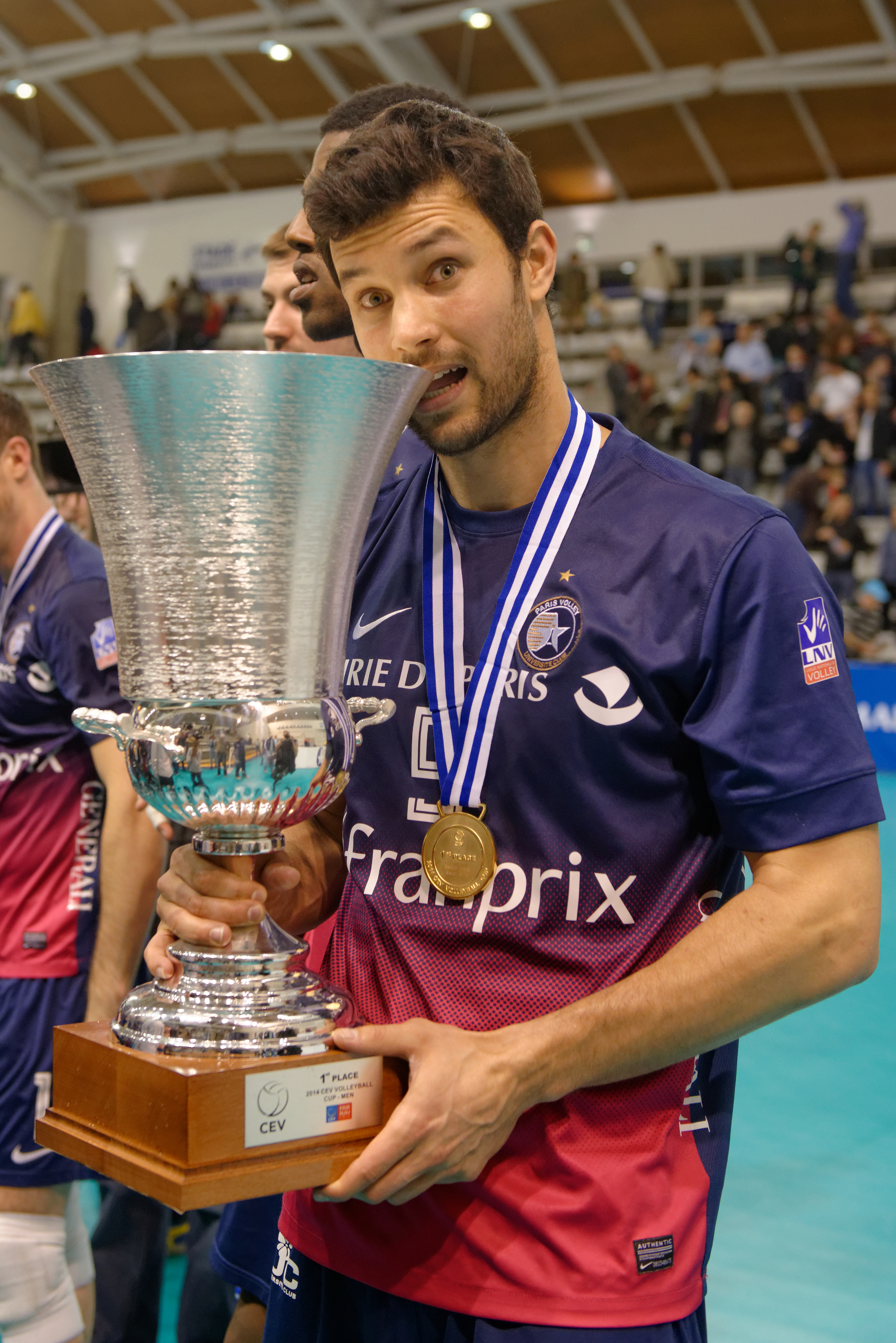 Paris Volley's William Bersani hoist the 2014 CEV Cup after the final against Guberniya Nizhny Novgorod in Paris on 29 March 2014.